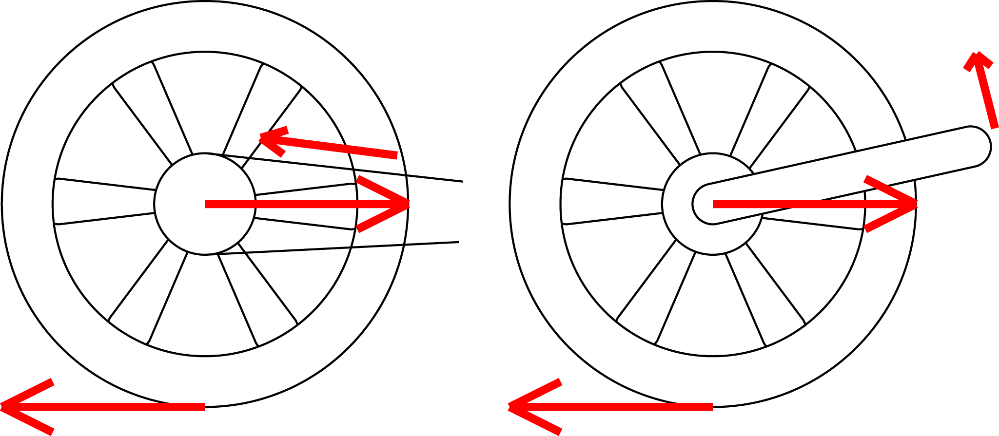 A visual depiction of the Forces at play for a chain or belt drive versus a drive shaft to illustrate the shaft effect.